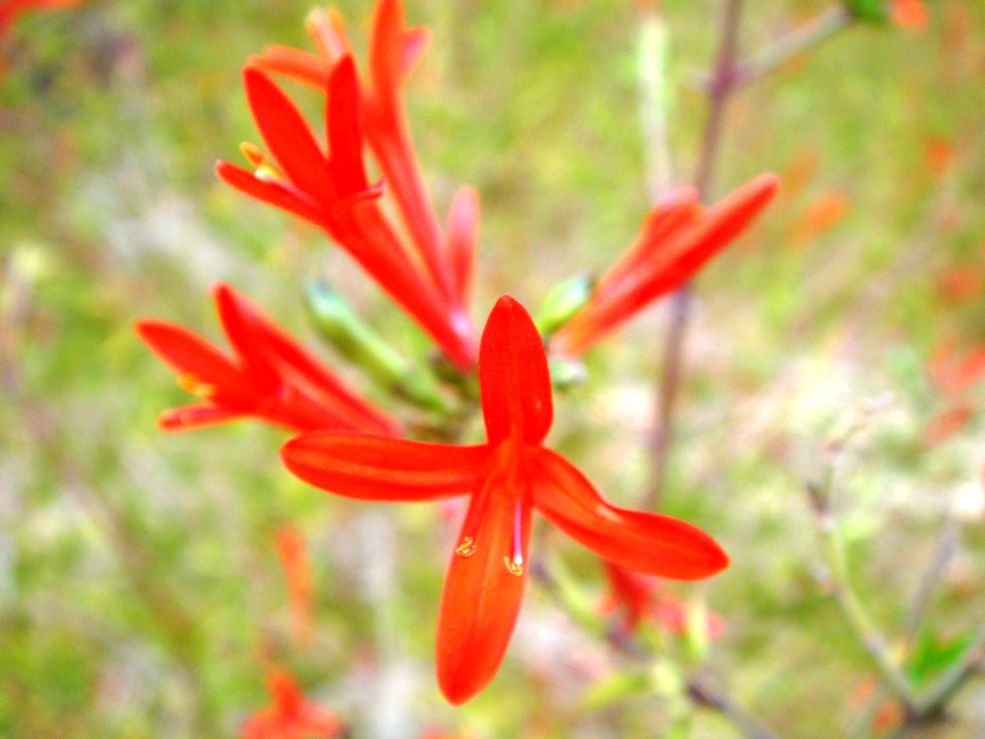 Anisacanthus quadrifidus, cultivated, Arizona State University, Tempe, Arizona